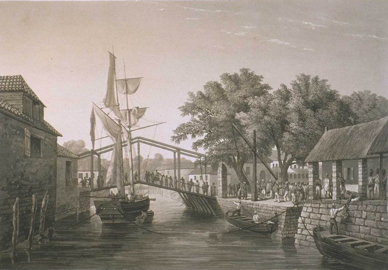 Landing-place at Malacca from Voyage Autour du Monde par les Mers de l’Inde et de Chine. Paris: Imprimerie Royale, 1833-39. The events of the voyage occurred between 1830 and 1832. The ship shown is the La Favorite captained by French navigator Cyrille Pierre Théodore Laplace.